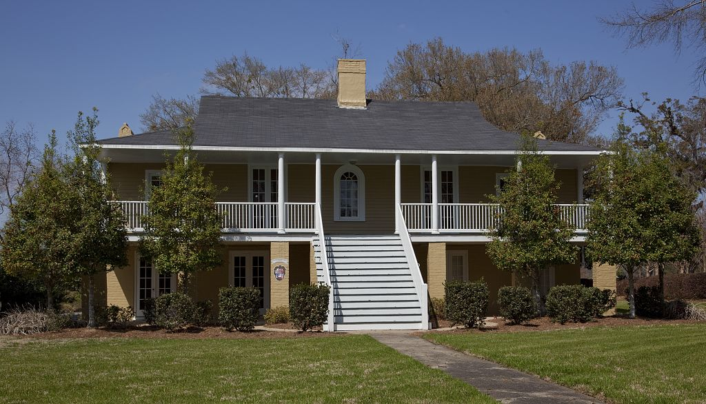 Mobile Medical Museum housed in the French colonial Vincent-Doan House built in 1827 and is one of the oldest structures in Mobile, Alabama.